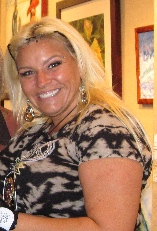 This is a cropped photo of Dog Chapman's Wife, Beth Smith, taken at an Art Gallery in Honolulu.